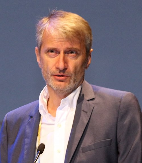 Portrait